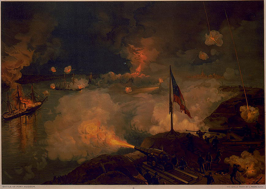 Battle of Port Hudson / J.O. Davidson ; Facsimile print by L. Prang & Co.